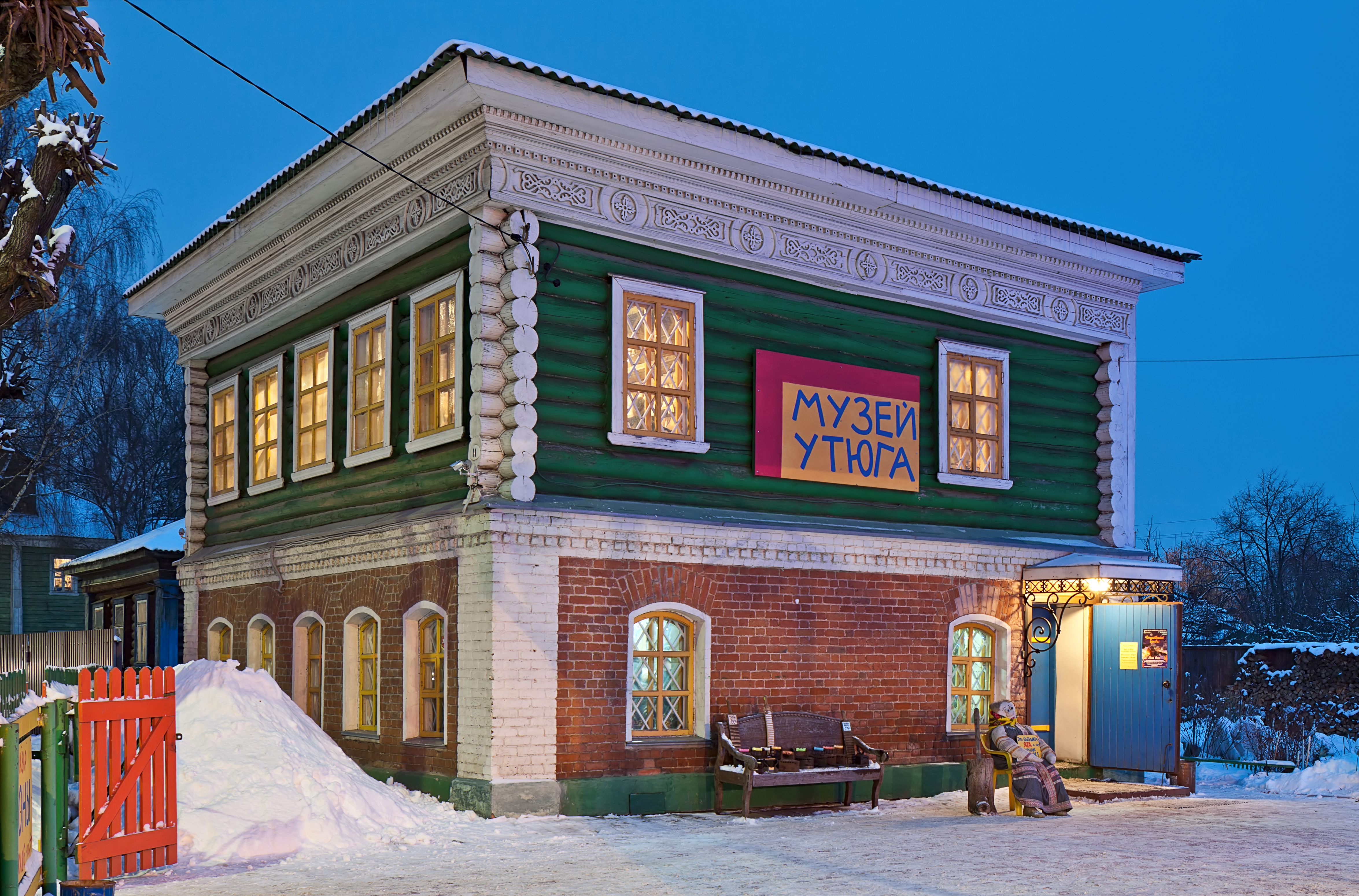 Irons museum in Pereslavl